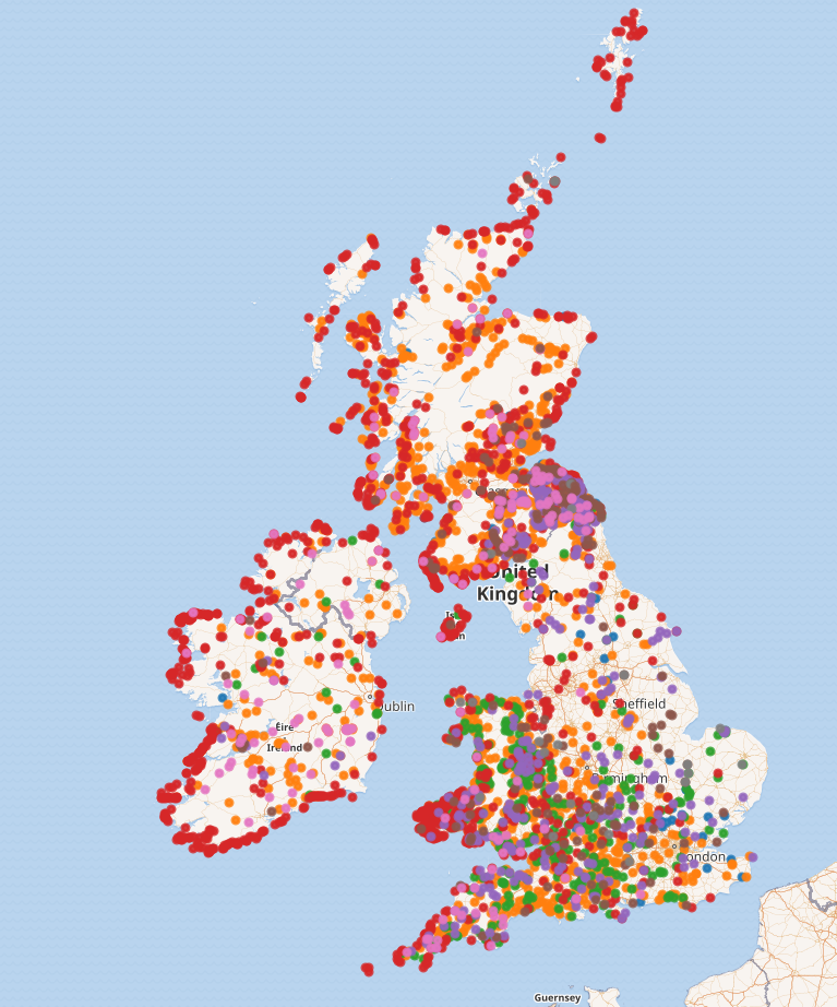 Map of hill forts in the British Isles, created in the Wikidata Query Service using data shared by the Atlas of Hillforts. The Wikidata query is at wikidata:User:MartinPoulter/queries/hillforts#Locations_of_hillforts_that_are_in_the_Atlas